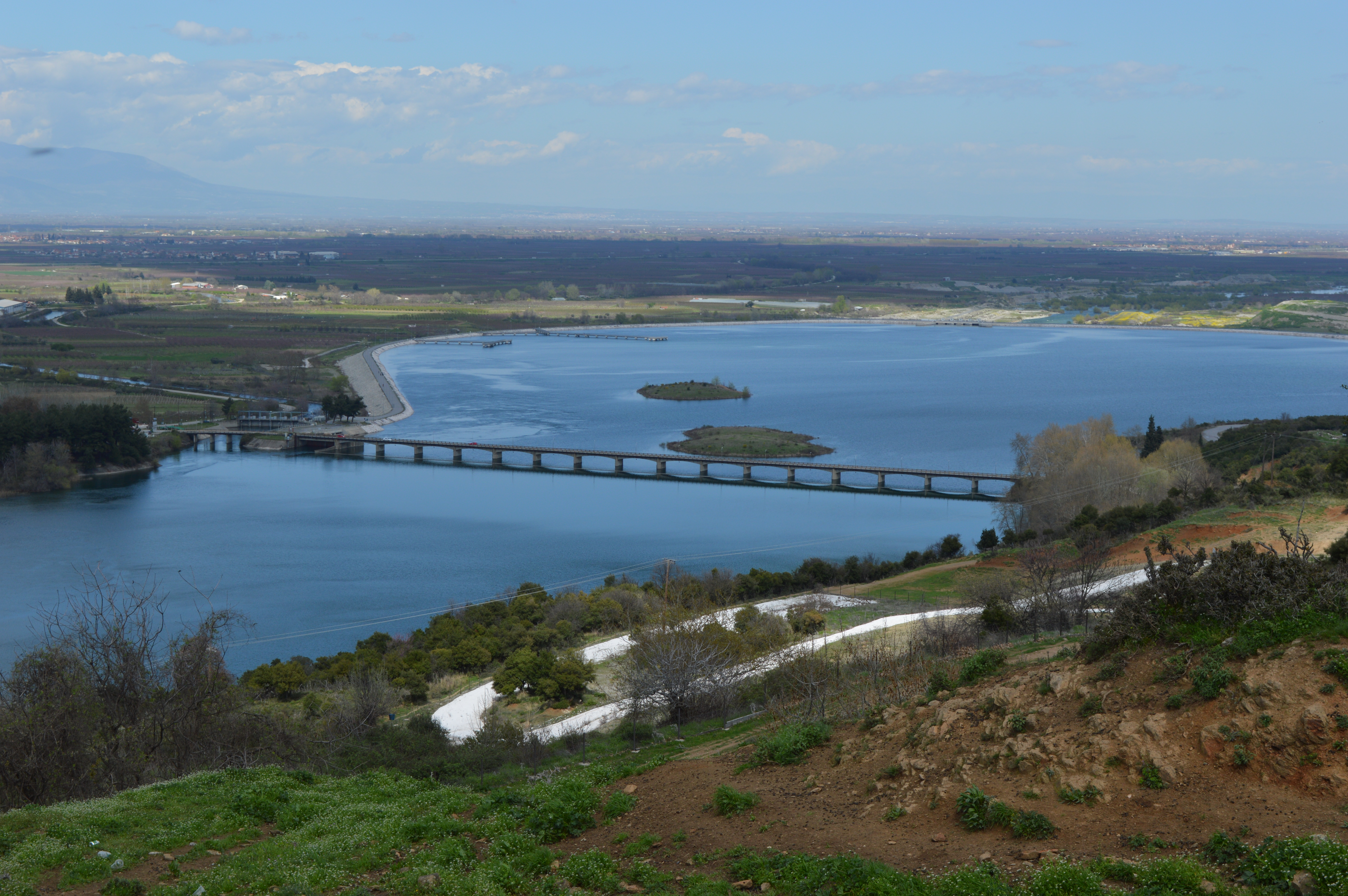 This is a photography of Natura 2000 protected area with ID GR1210002